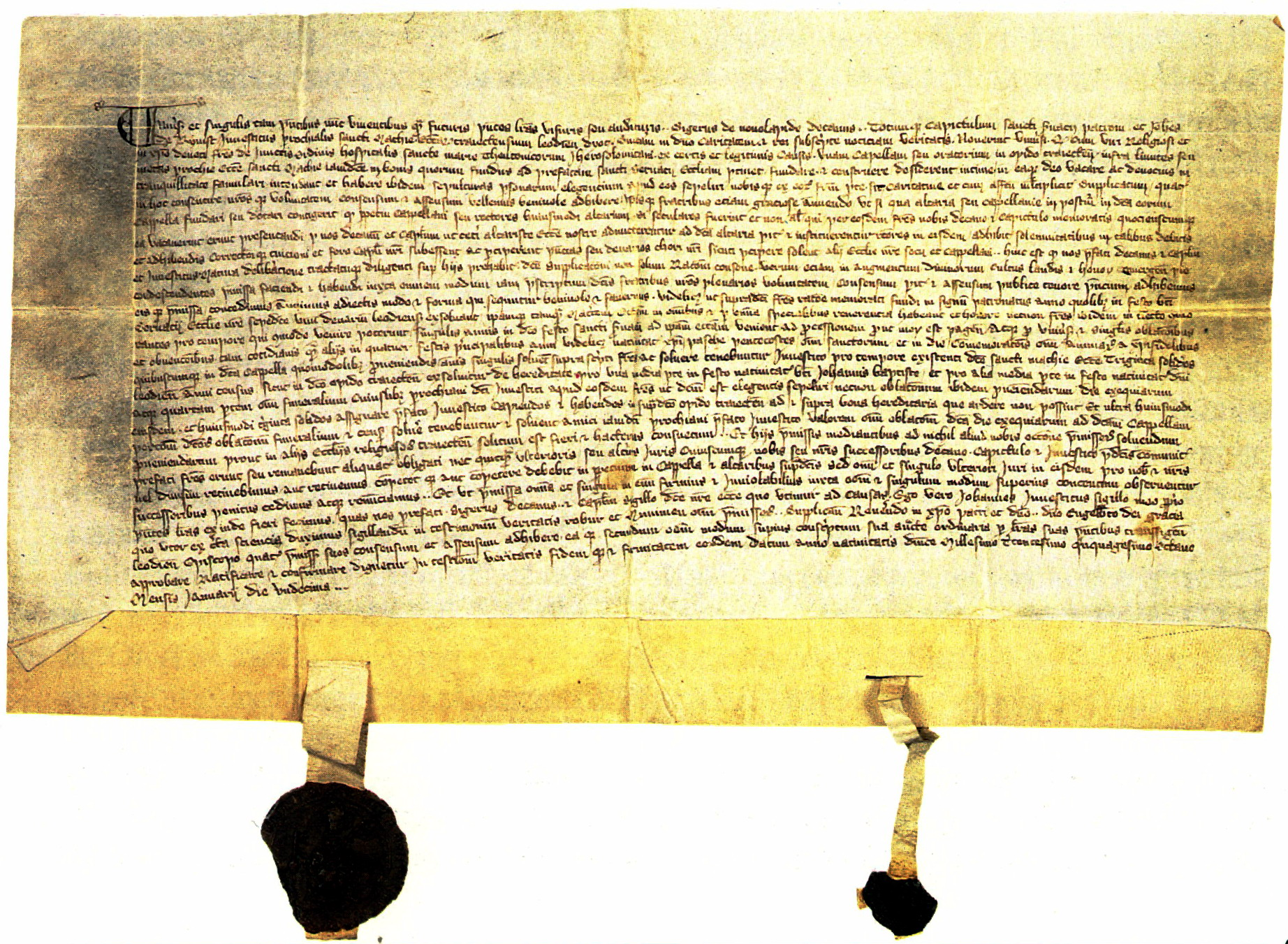 Document of 1358 in which the dean and chapter of Saint Servatius and the priest of Saint Matthew's parish church in Maastricht give permission to the Knight of the Teutonic Order to build a chapel in Maastricht. Document now in the National Archives in Limburg, (Rijksarchief in Limburg) Hasselt, Belgium.